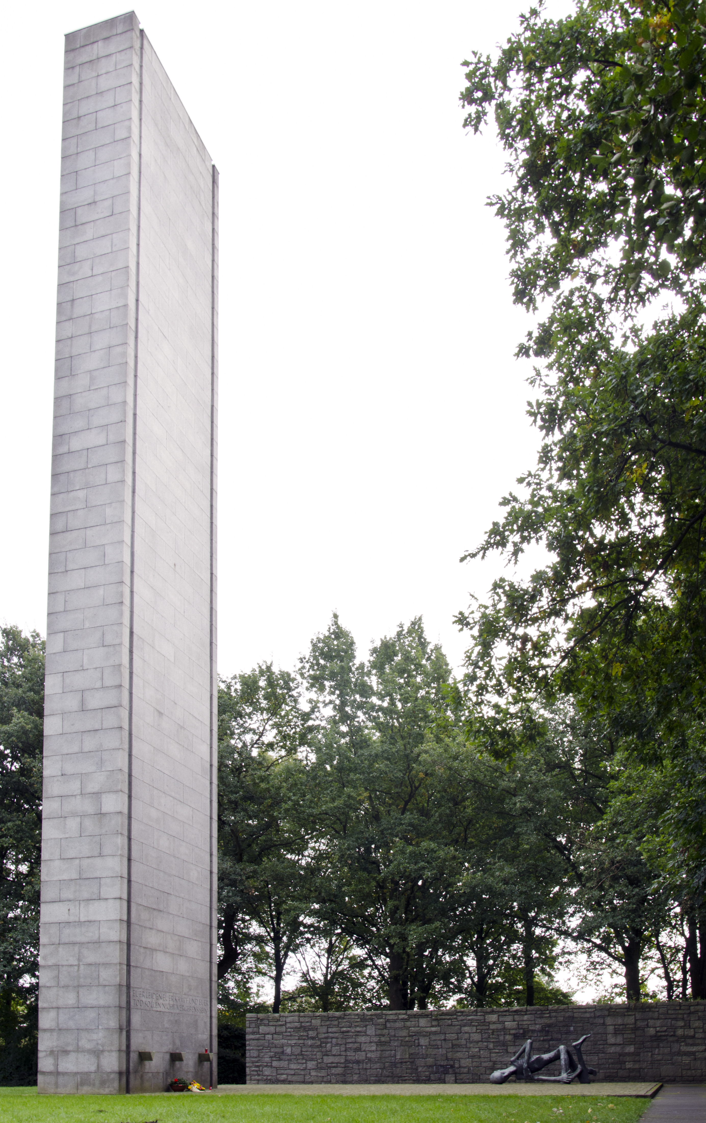 Memorial for the victims of the Neuengamme Concentration CampThis is a photograph of an architectural monument.